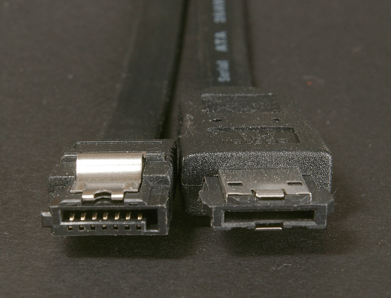 Cable with connector for attaching a SATA drive to an eSATA port. SATA connector is shown on the left; on the right-hand side: eSATA connector.